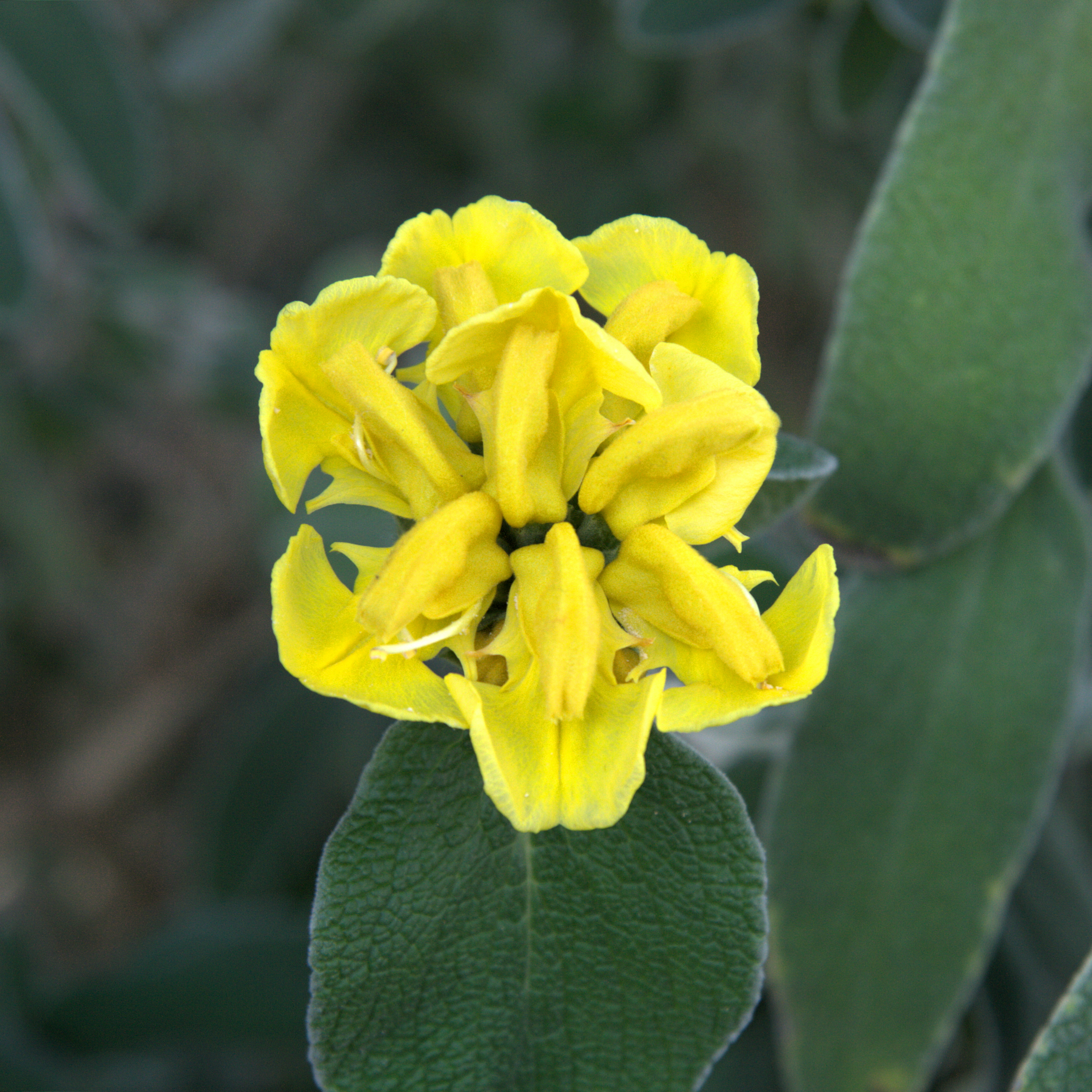 Phlomis cretica